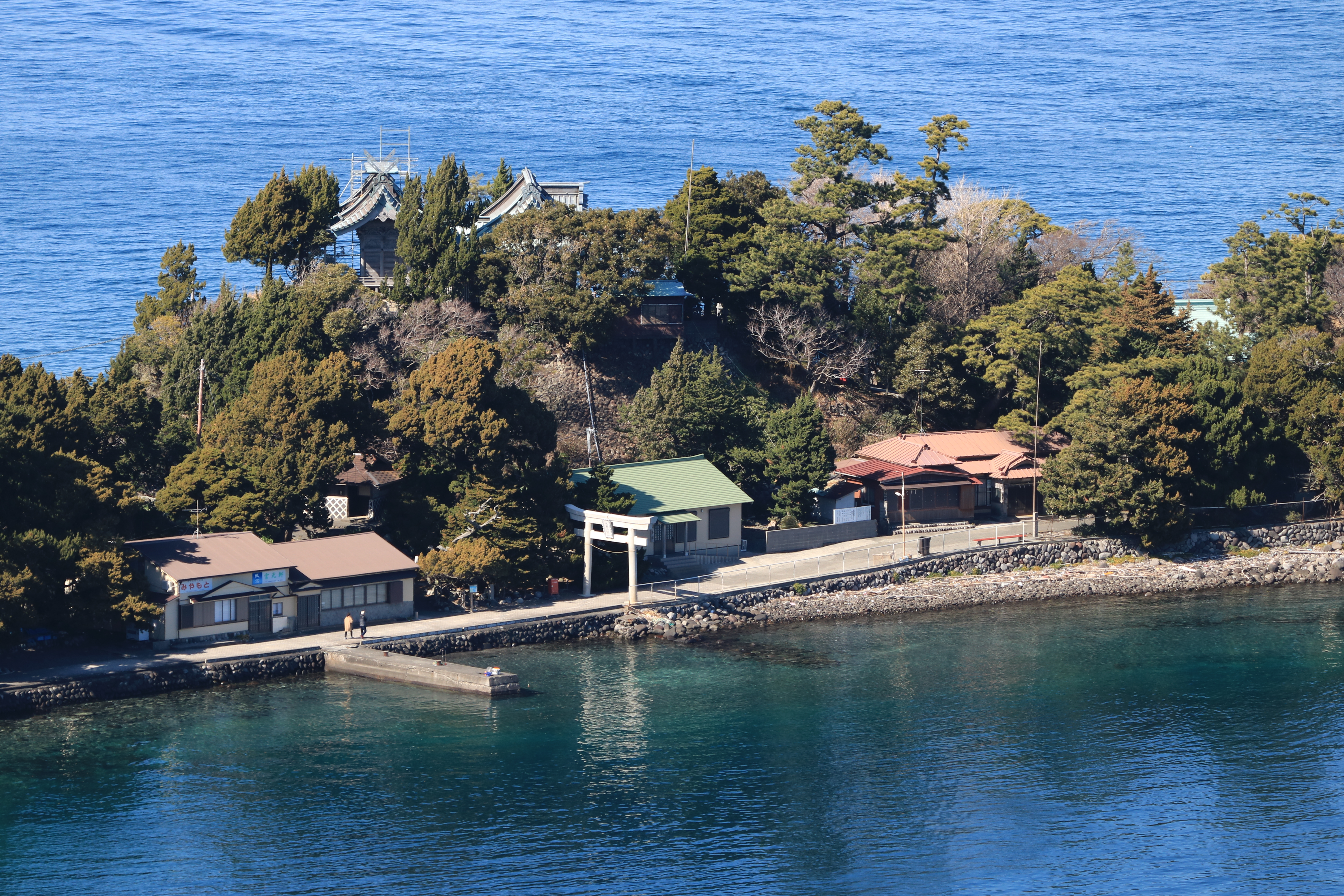 Hikitechikaranomikoto Jinja in Numazu, Shizuoka Prefecture, Japan.